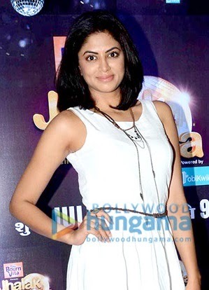 A cropped version of Kavita Kaushik at Jhalak Dikhhla Jaa.